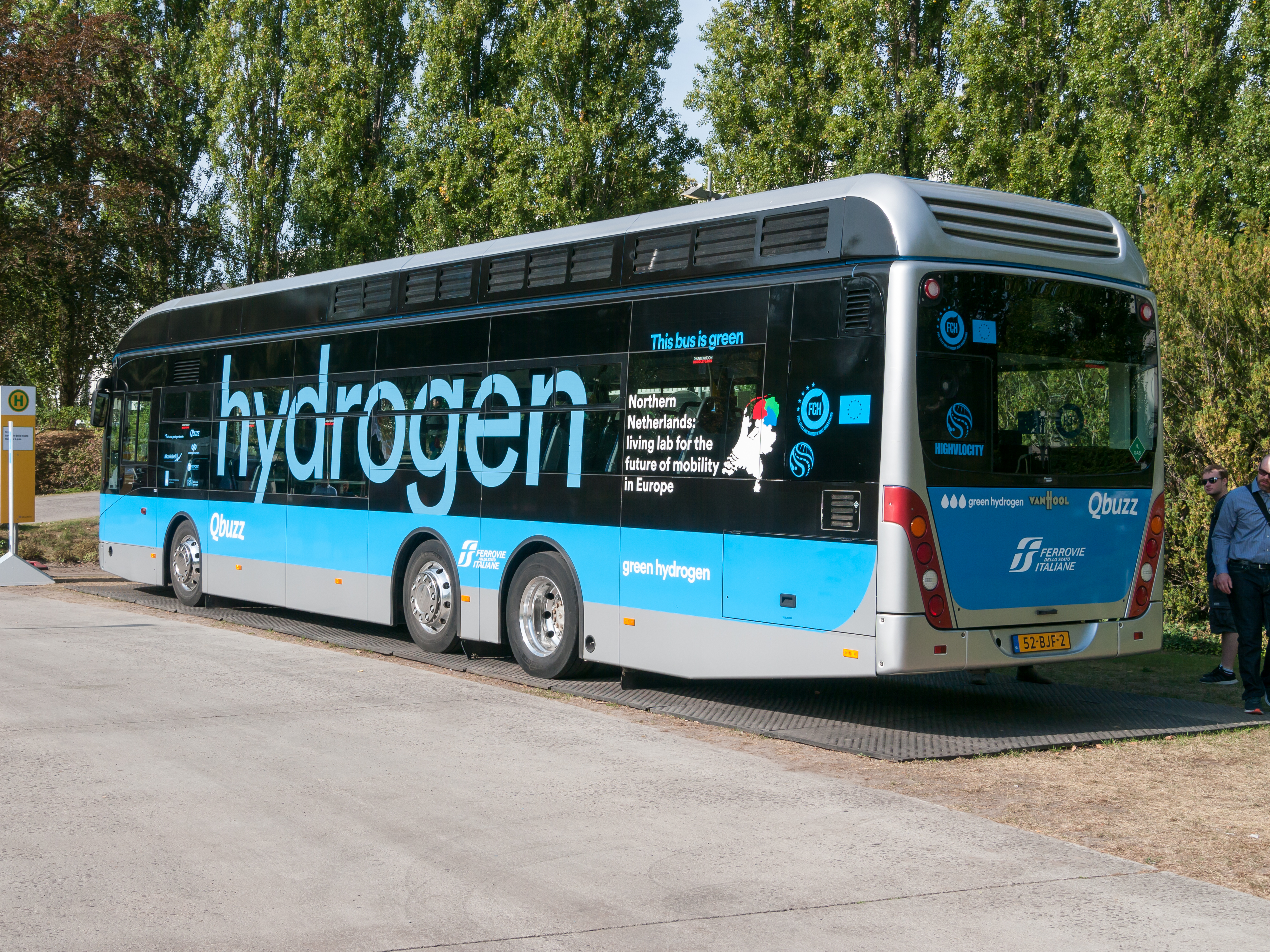 Innotrans 2018